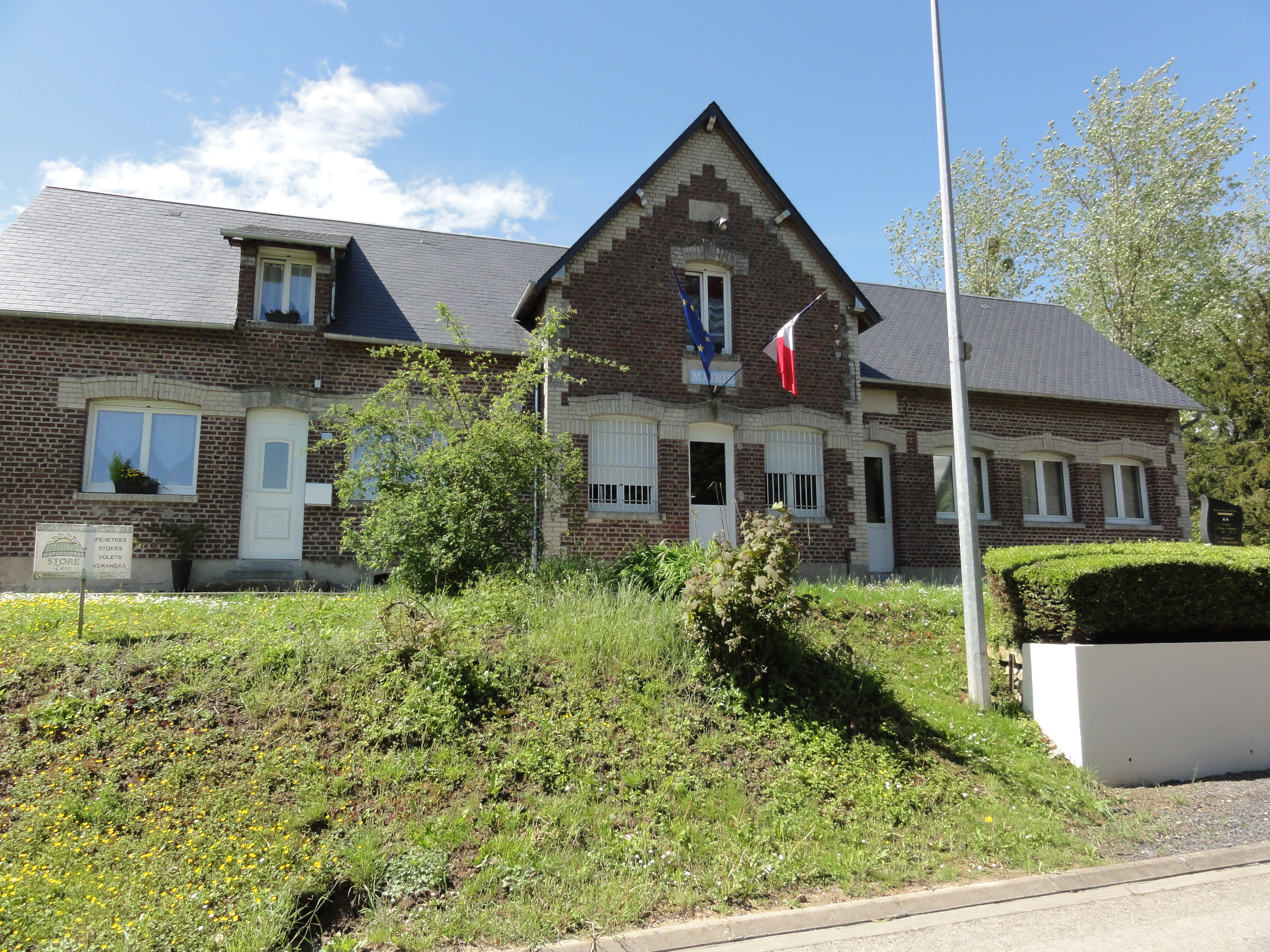 Surfontaine (Aisne) mairie